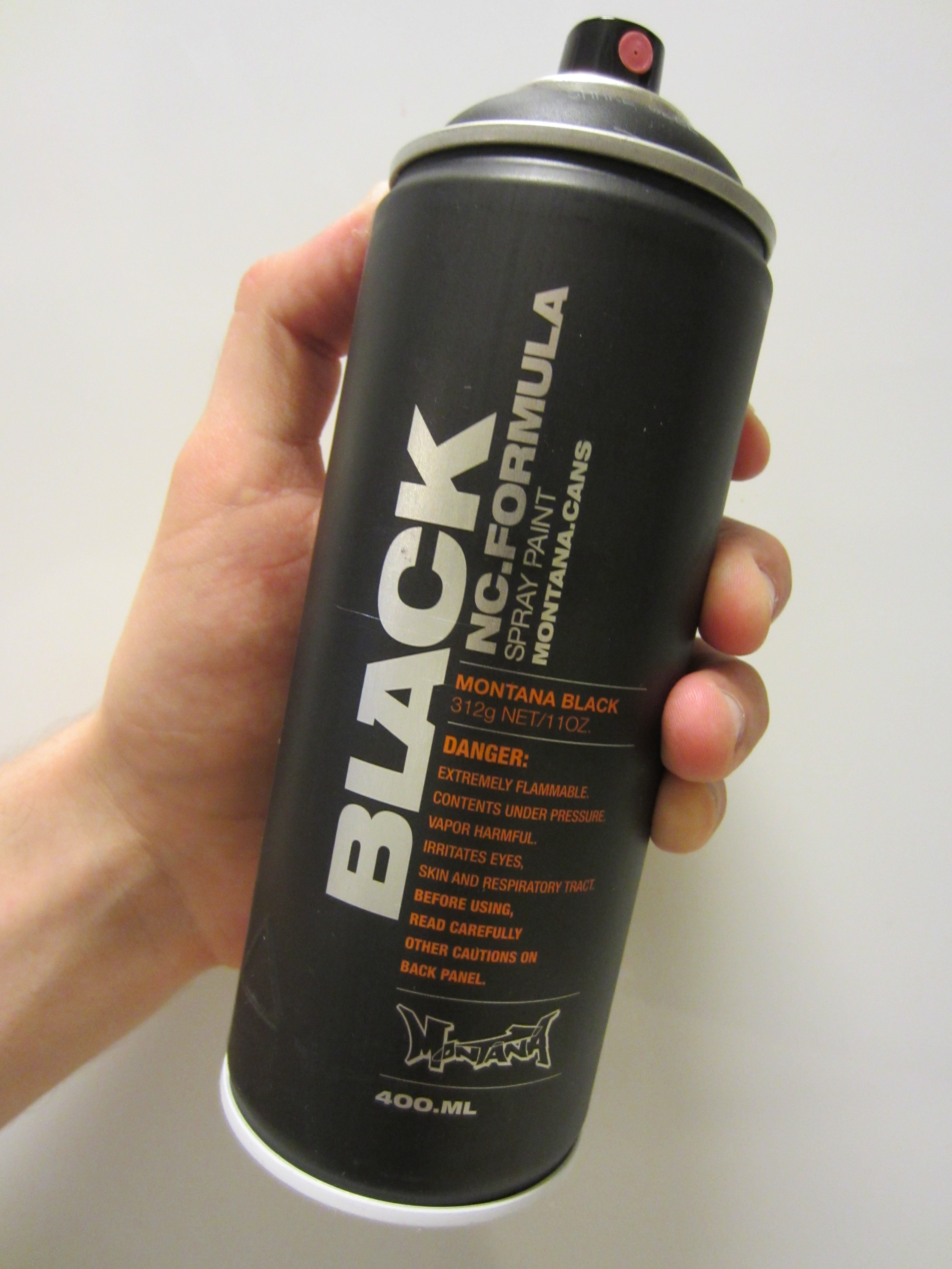 Aerosol spray can from Montana.